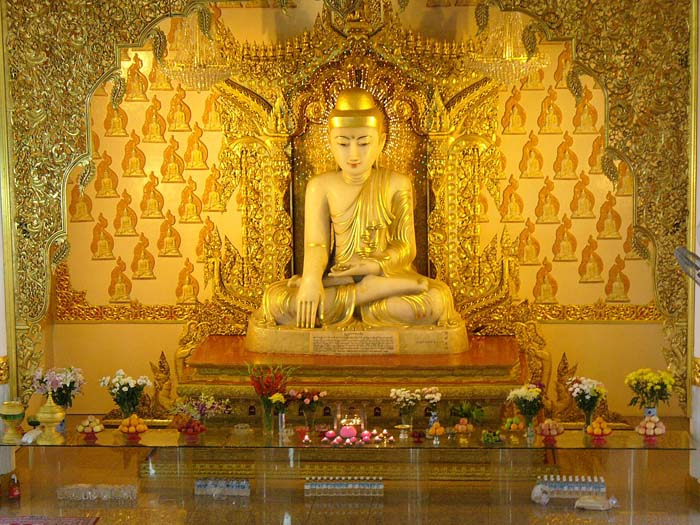 The white marble statue of Buddha inside the Burmese Buddhist Temple in Singapore. This image appeared on English Wikipedia's Main Page in the Did you know? column on 30 July 2007 (see archives).